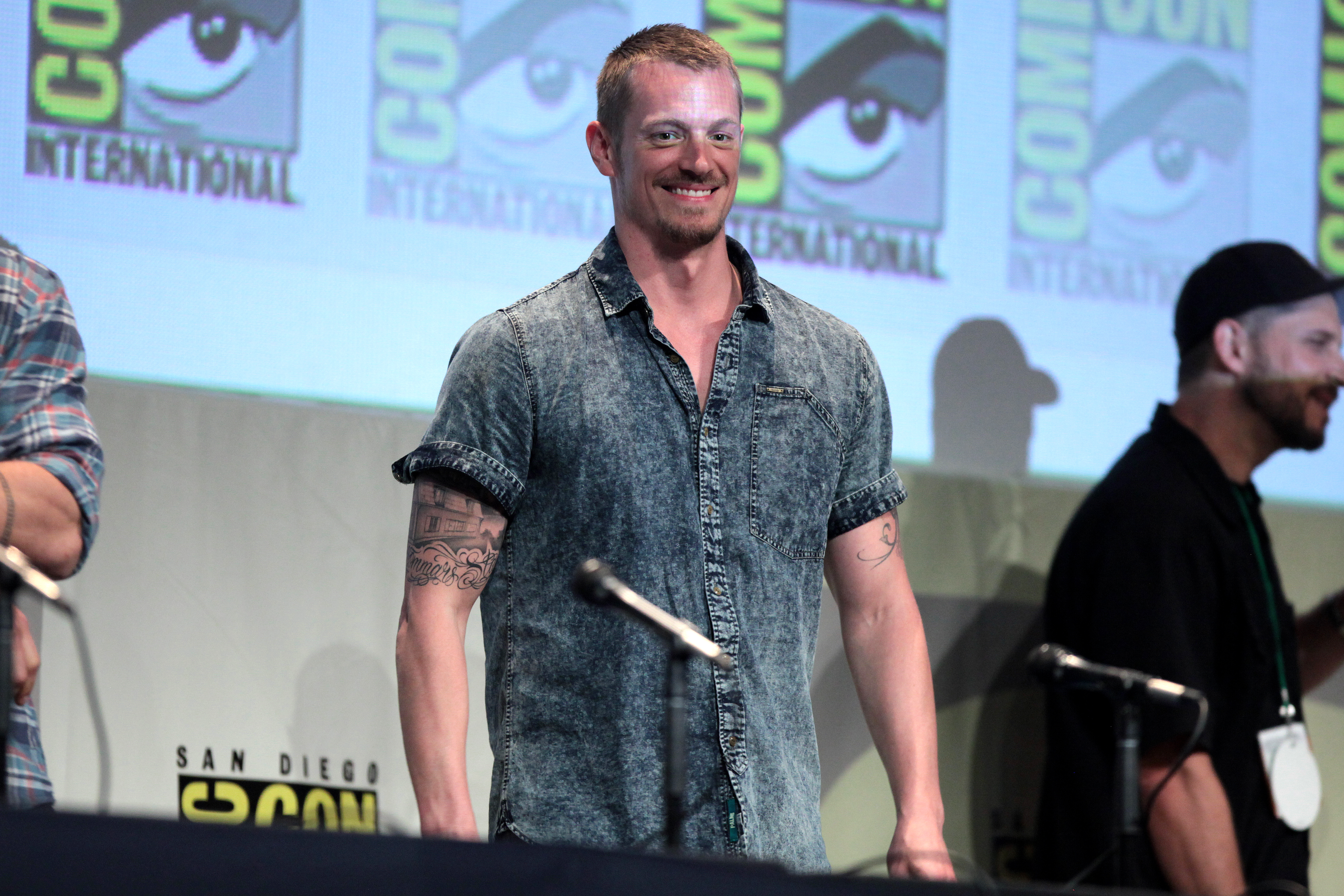 Joel Kinnaman speaking at the 2015 San Diego Comic Con International, for "Suicide Squad", at the San Diego Convention Center in San Diego, California.